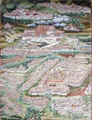 Lhasa